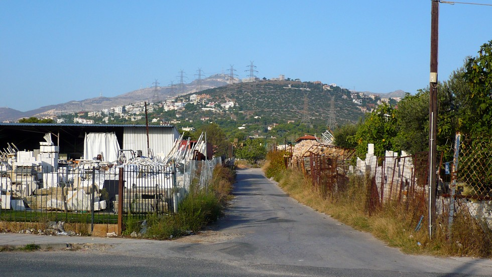 The picture depicts marble workshops at Gerakas.